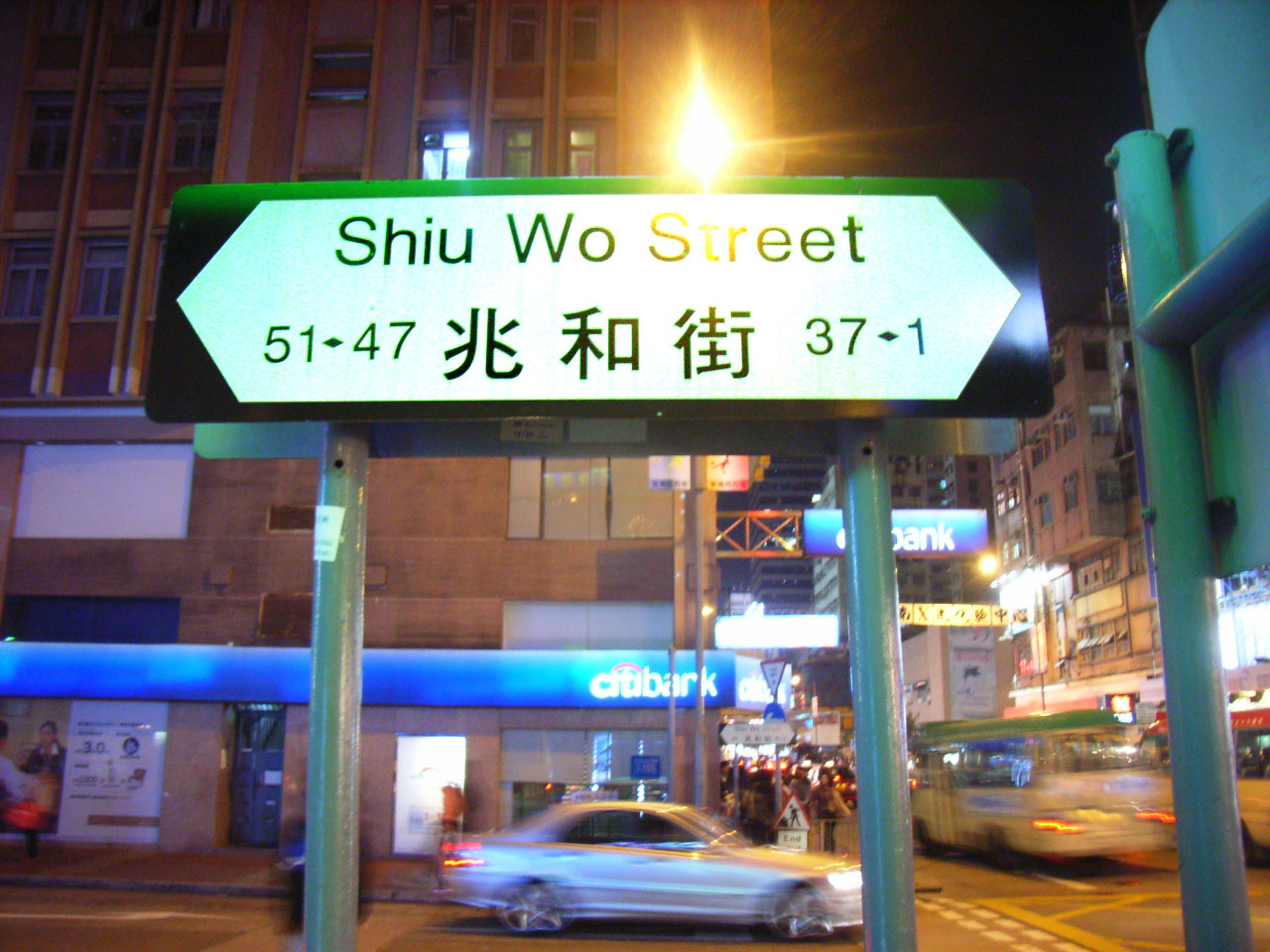 荃灣 兆和街 近zh:眾安街